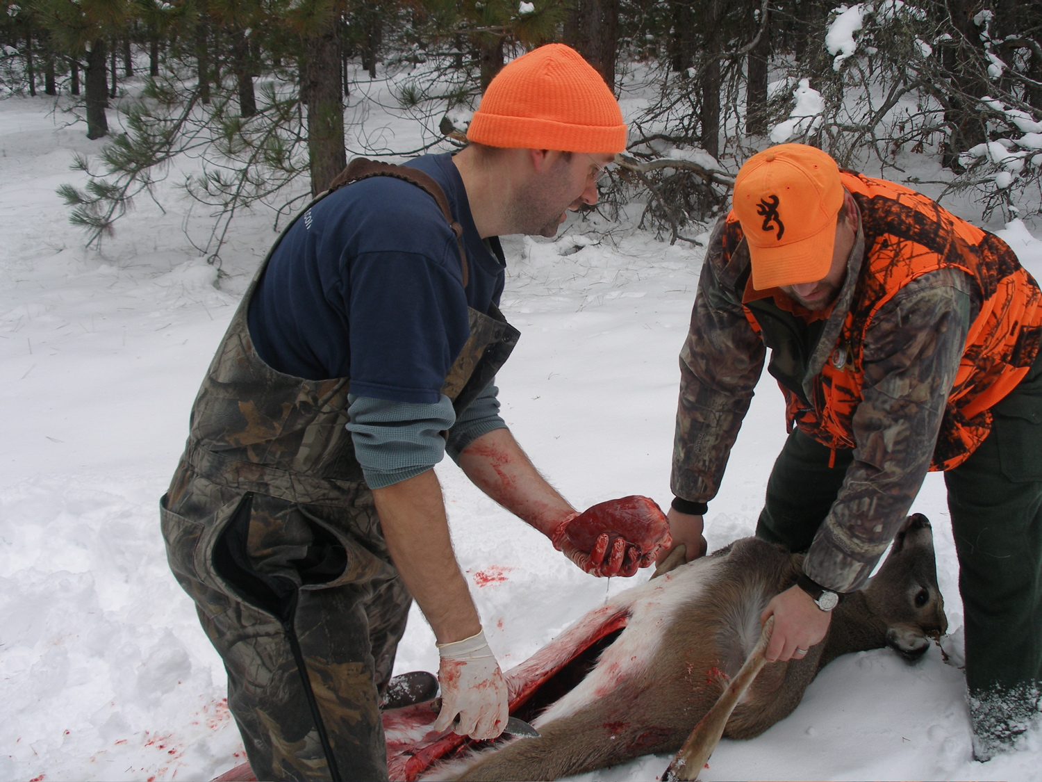 Field Dressing of a White-tailed Deer. Hiawatha National Forest, Delta County, Michigan USA. Note: Heart in hand.